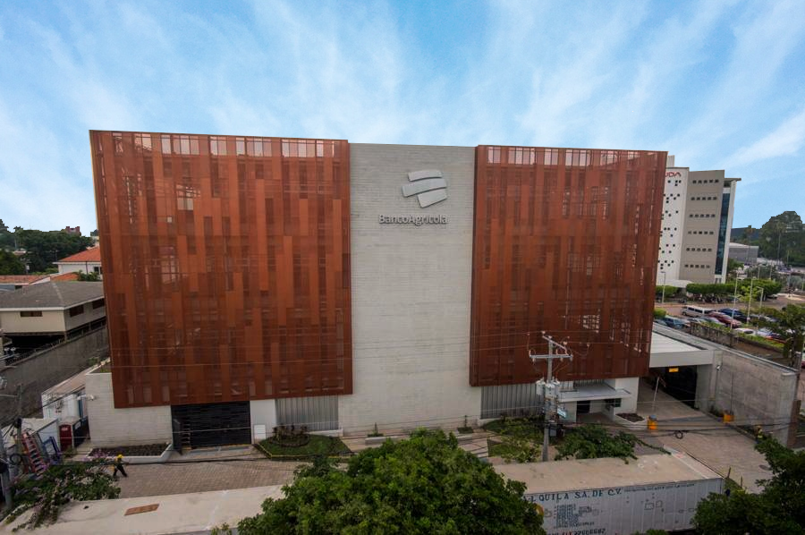 Headquarters of Banco Agrícola in San Salvador, El Salvador.